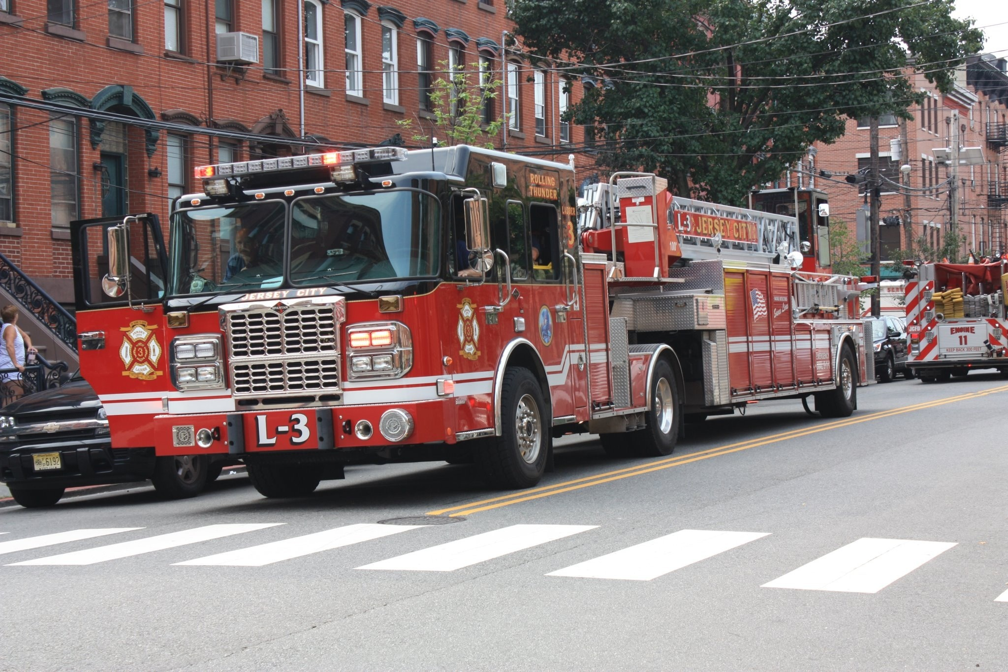 Ladder Company 3 Fdjc